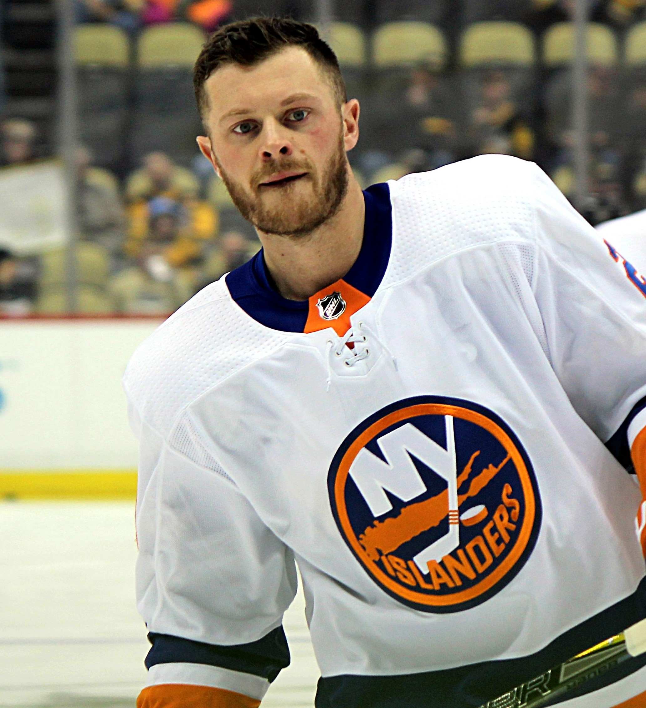 New Yorks Islanders forward Chris Wagner during a game against the Pittsburgh Penguins at PPG Paints Arena in Pittsburgh, PA. Saturday, March 3, 2018.